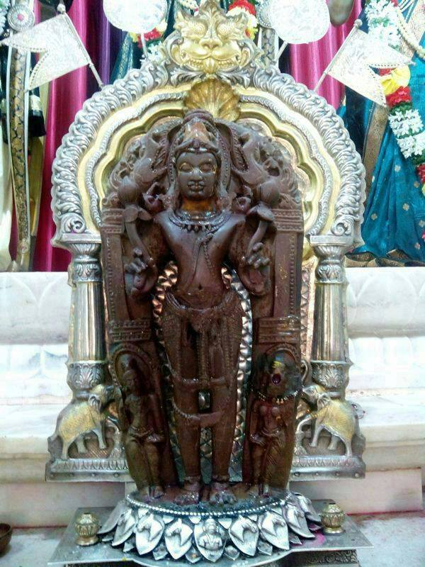 Lord Ram at Chaphal -Samarth Ramdas Swami